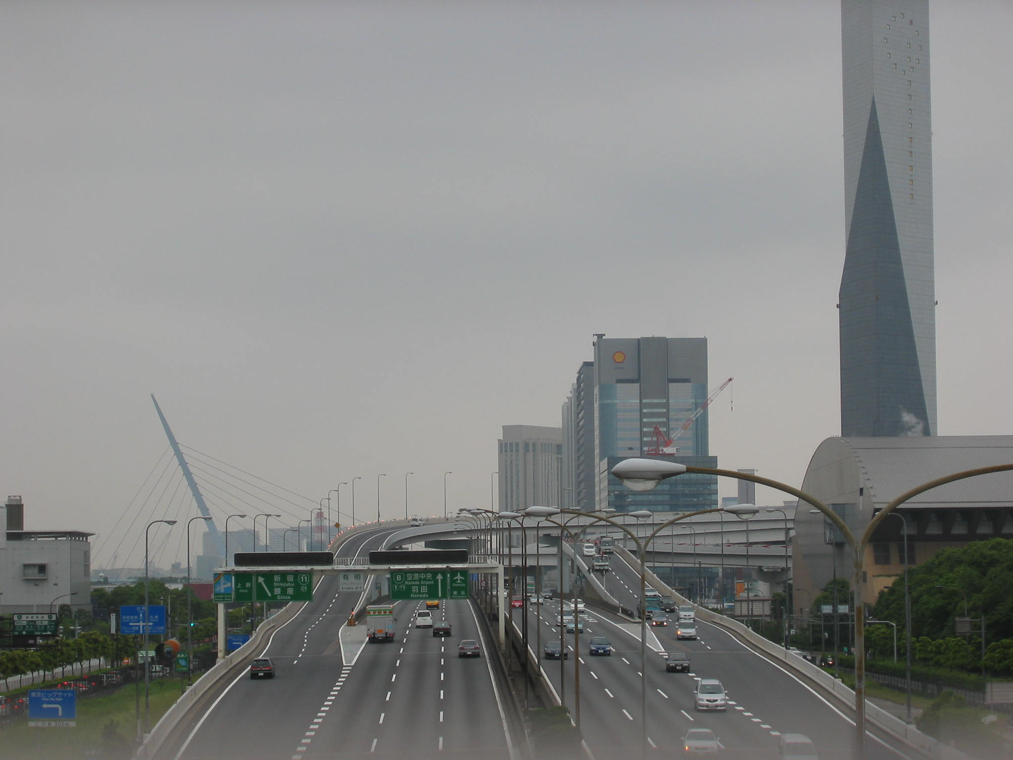 Ariake Junction on the Metropolitan Expressway Route B